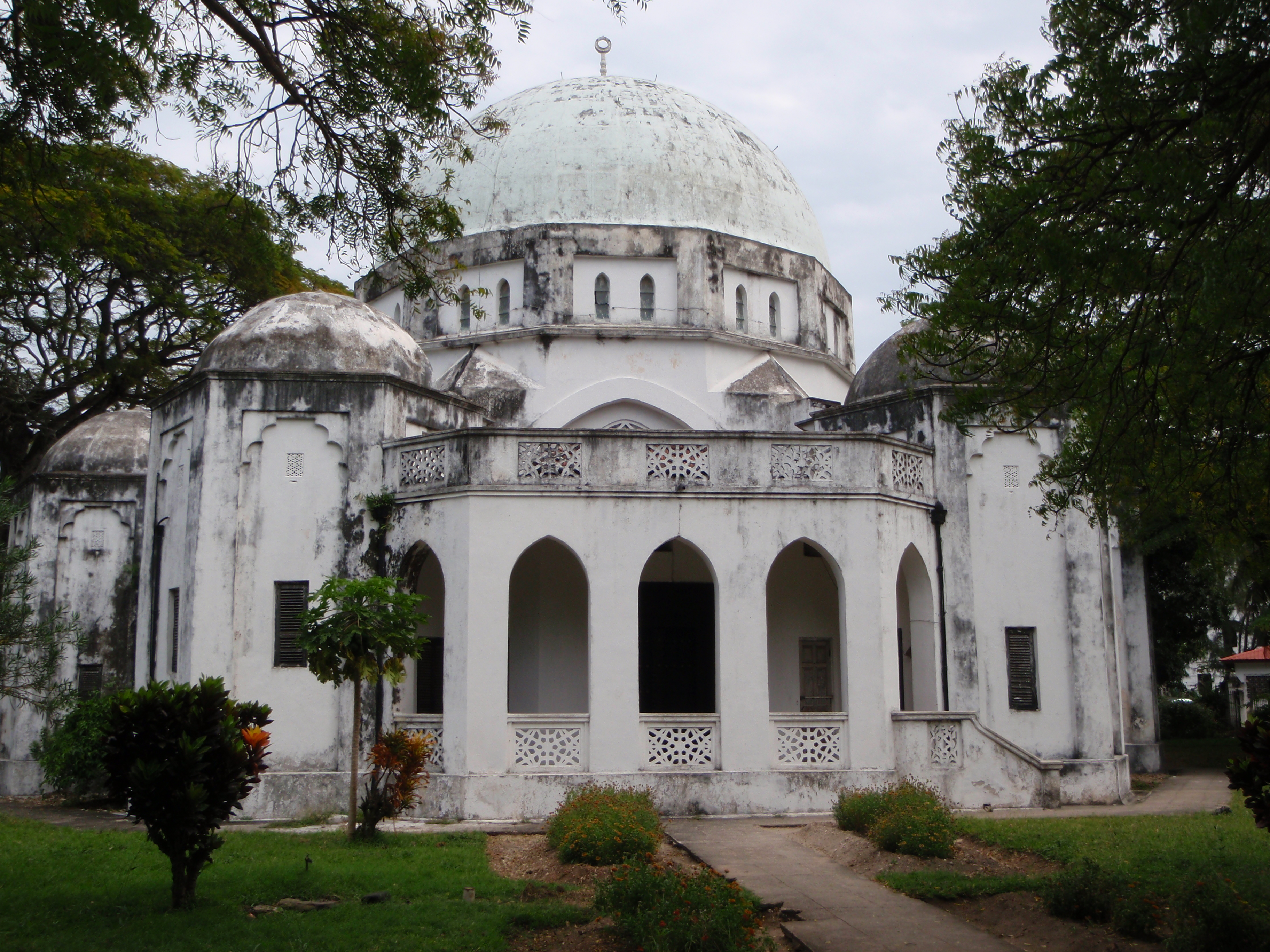 Stone Town Mosque